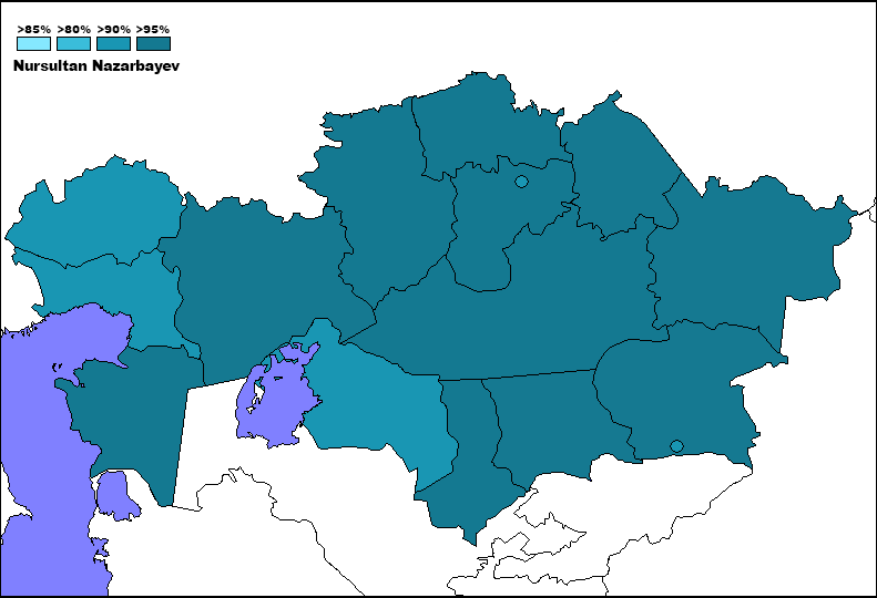 Map of results of the 2011 Kazakh presidential election by regions. More than 95% More than 90% More than 80% More than 65%